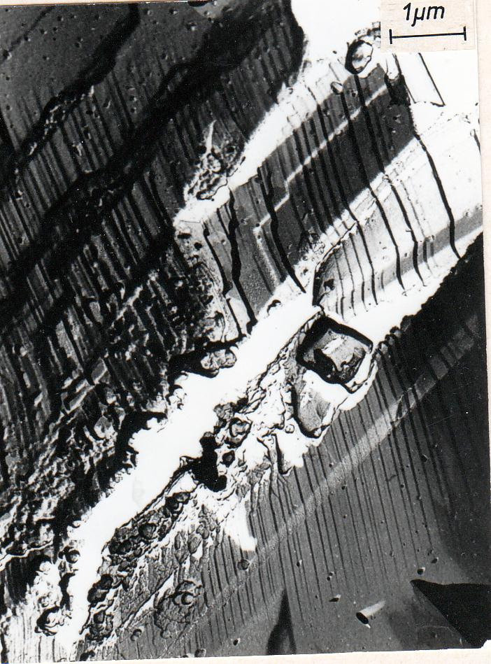 Glide steps at an indention of a needle,(100) face,[As], TEM, carbon replica